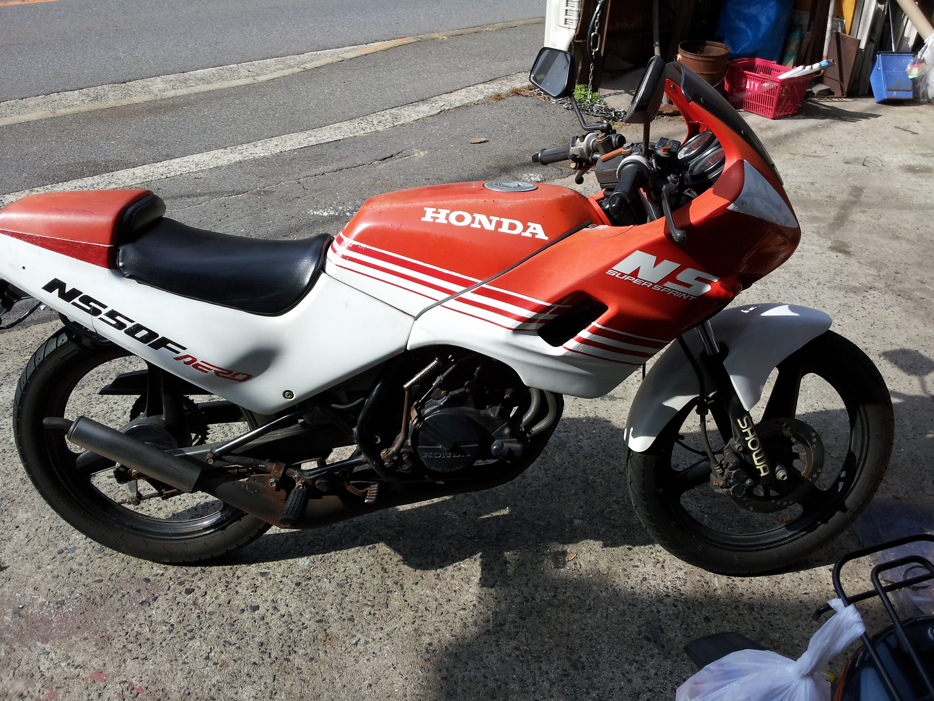 Honda NS50F